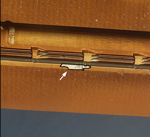 S114-E-5070 (26 July 2005) --- Digital umbilical well images taken after Discovery separated from its external fuel tank following launch on July 26 were transmitted to the ground July 27. Initial analysis of the imagery shows a large piece of foam that separated from the tank during the Shuttle's ascent to orbit. The foam detached from an area of the tank called the Protuberance Air Load (PAL) Ramp. This debris also was identified during ascent from a live video camera mounted on the external tank. The television view indicated the debris did not impact Discovery. In this still image, the area of missing foam on the tank is indicated by a light spot centered just below the liquid oxygen feedline. (Image Credit: NASA)